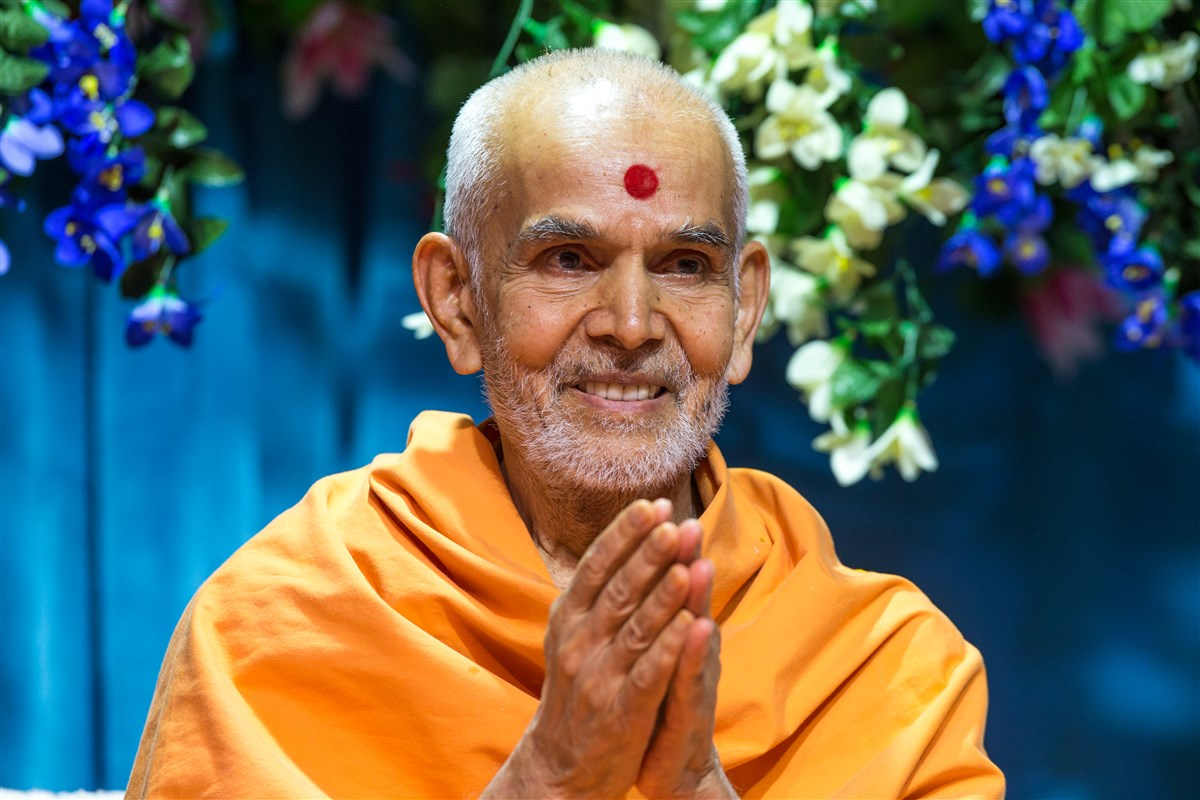 Mahant Swami Maharaj is the sixth spiritual successor in Swaminarayan's lineage of Gunatit Gurus